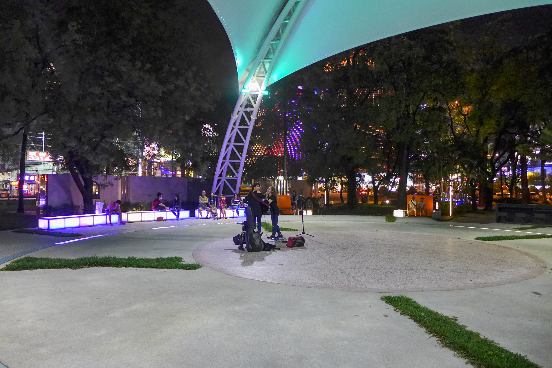 Kaohsiung Urban Spotlight Amphitheatre